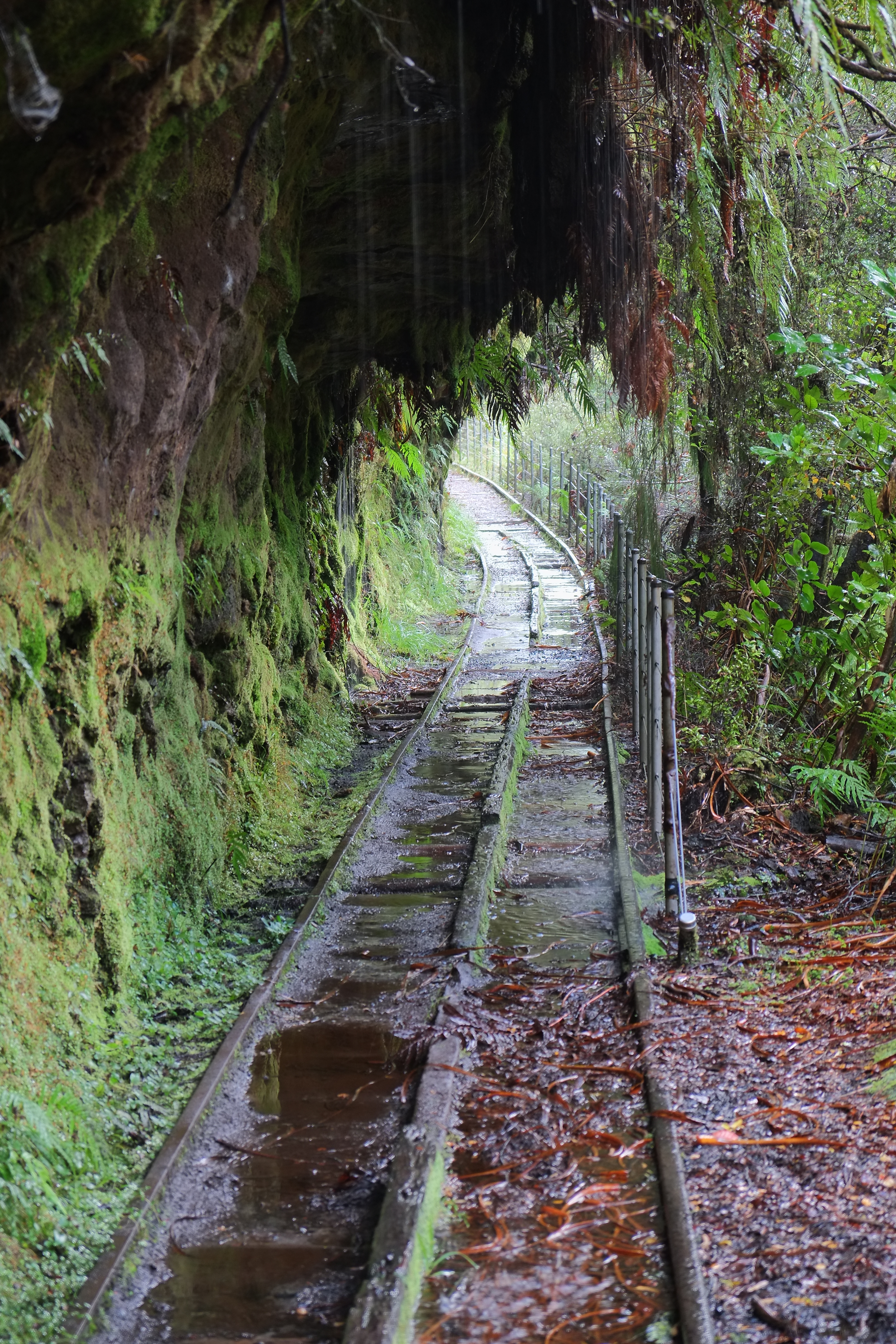 Disused Ngakawau railway tracks through 'The Verandah' on Charming Creek Walkway; narrow gauge track with a wooden center brake rail